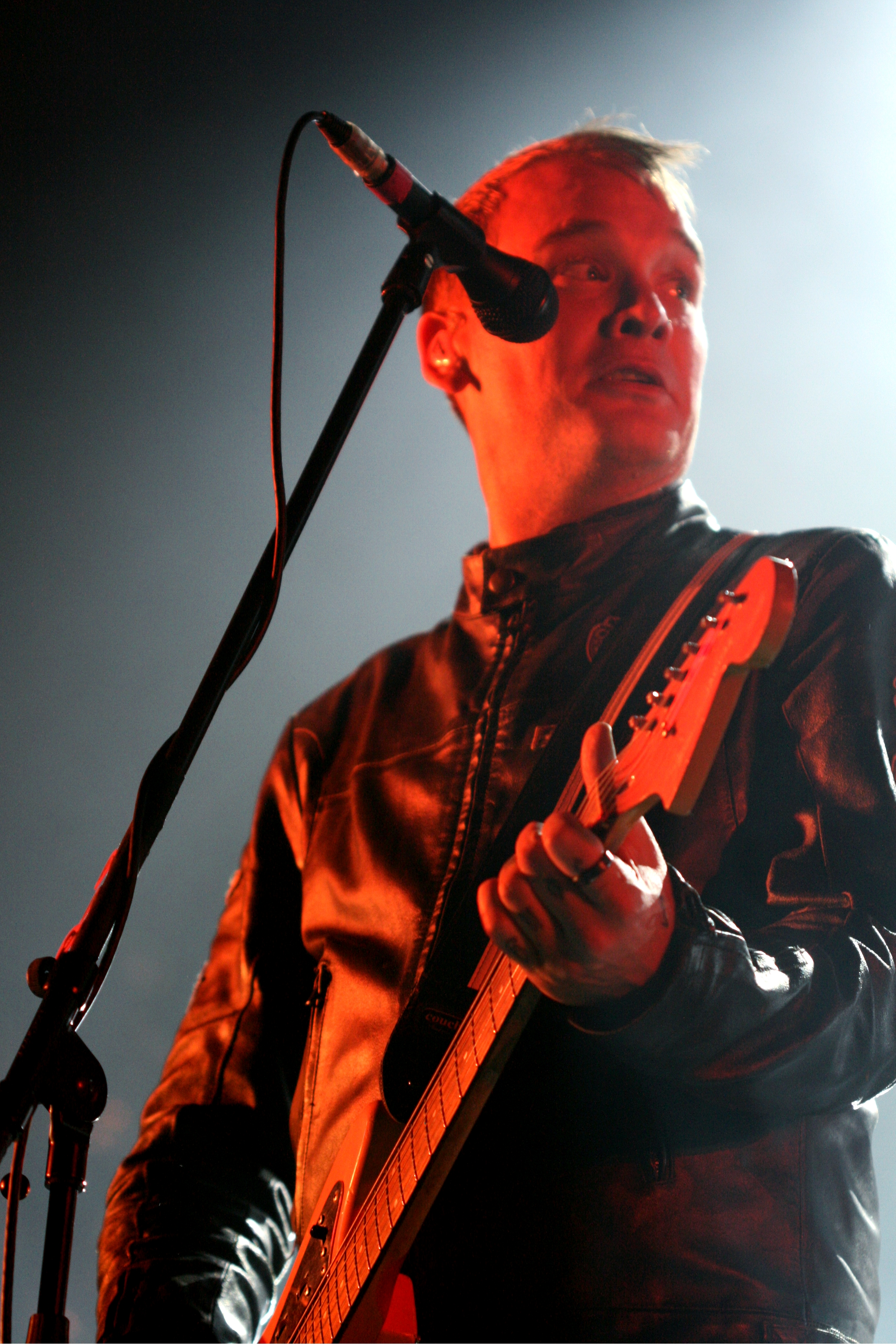 Matt Skiba, singer and guitarist of Alkaline Trio, on the "Sounds For Nature" Stage of the Taubertal Festival 2013. Festivalsommer This photo was created with the support of donations to Wikimedia Deutschland in the context of the CPB project "Festival Summer".